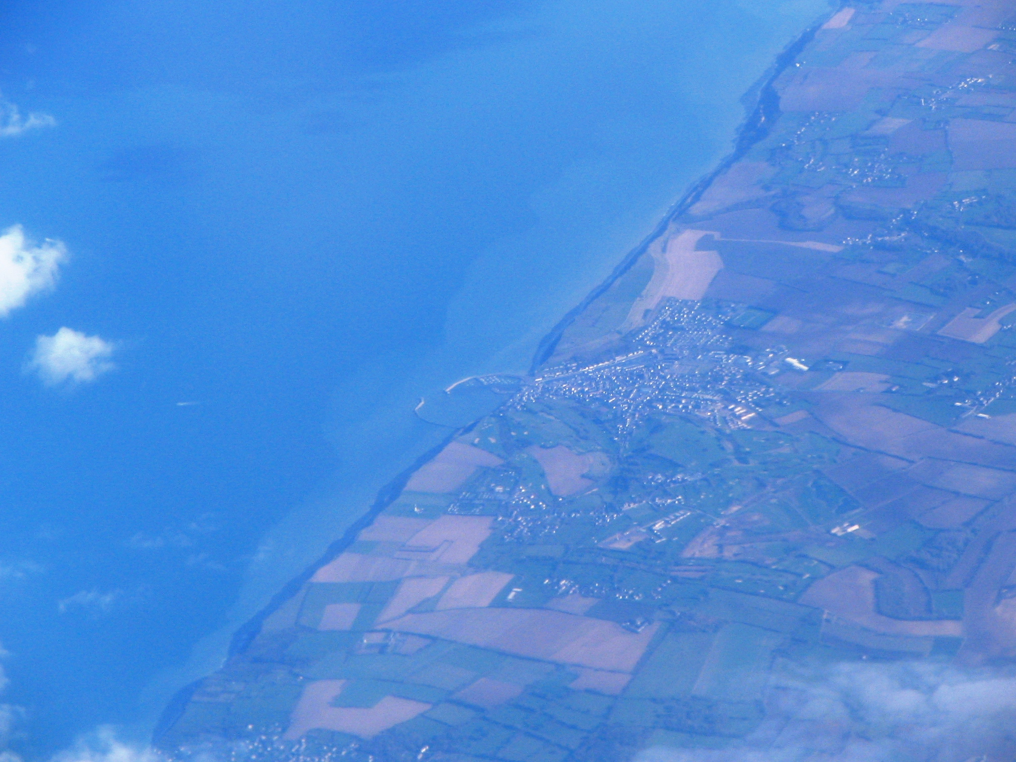 French city Port-en-Bessin-Huppain - view from flight